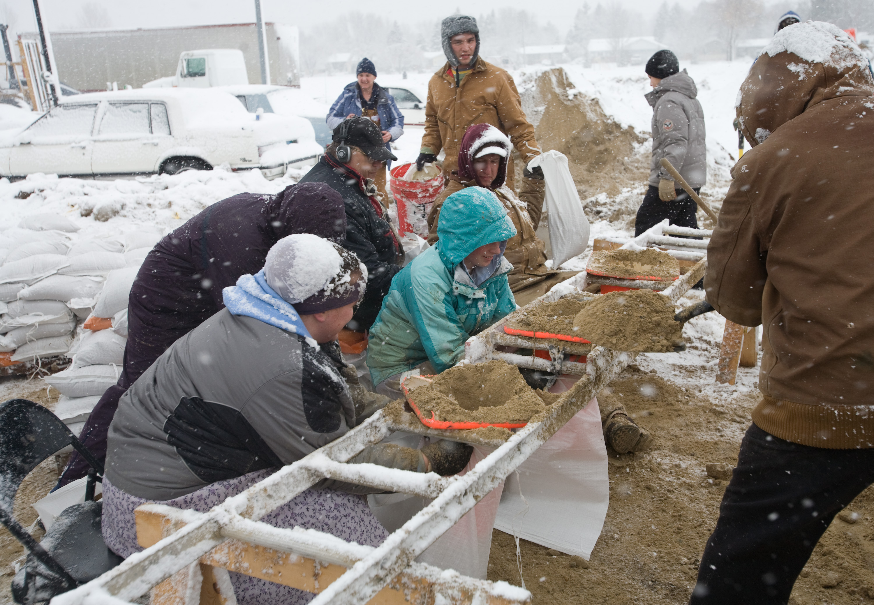 Moorhead, MN, March 30, 2009 --Mennonite volunteers from International Falls, Minnesota, Jolene Miller and Heather Sunne help fill sandbags in Moorhead, Minnesota following the Red River flooding. Andrea Booher/FEMA